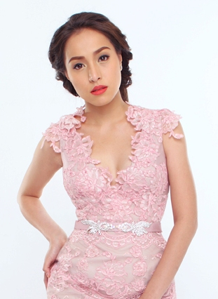 Cristine Reyes as photographed by Jopet Sy in November 25, 2011.